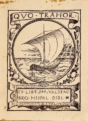 José María Valdenebro's Ex Libris